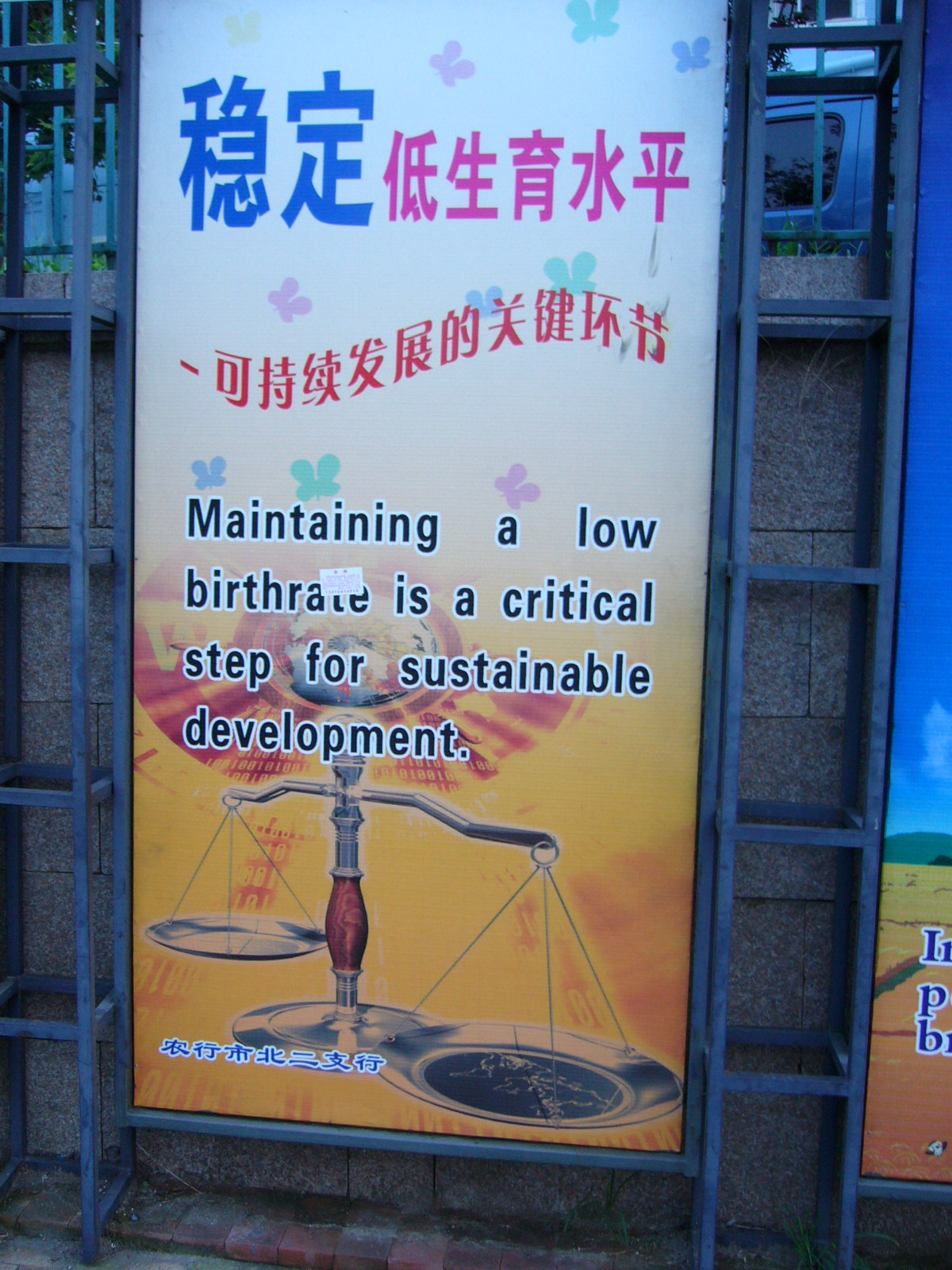 To maintaining a low fertility rate, China uses one-child policy to control the increasing rate of population growth.